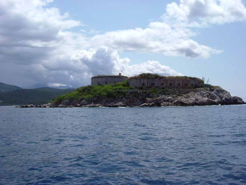 Former military prison on Mamula Island, Montenegro. Photo by: Aleksandar Bogicevic